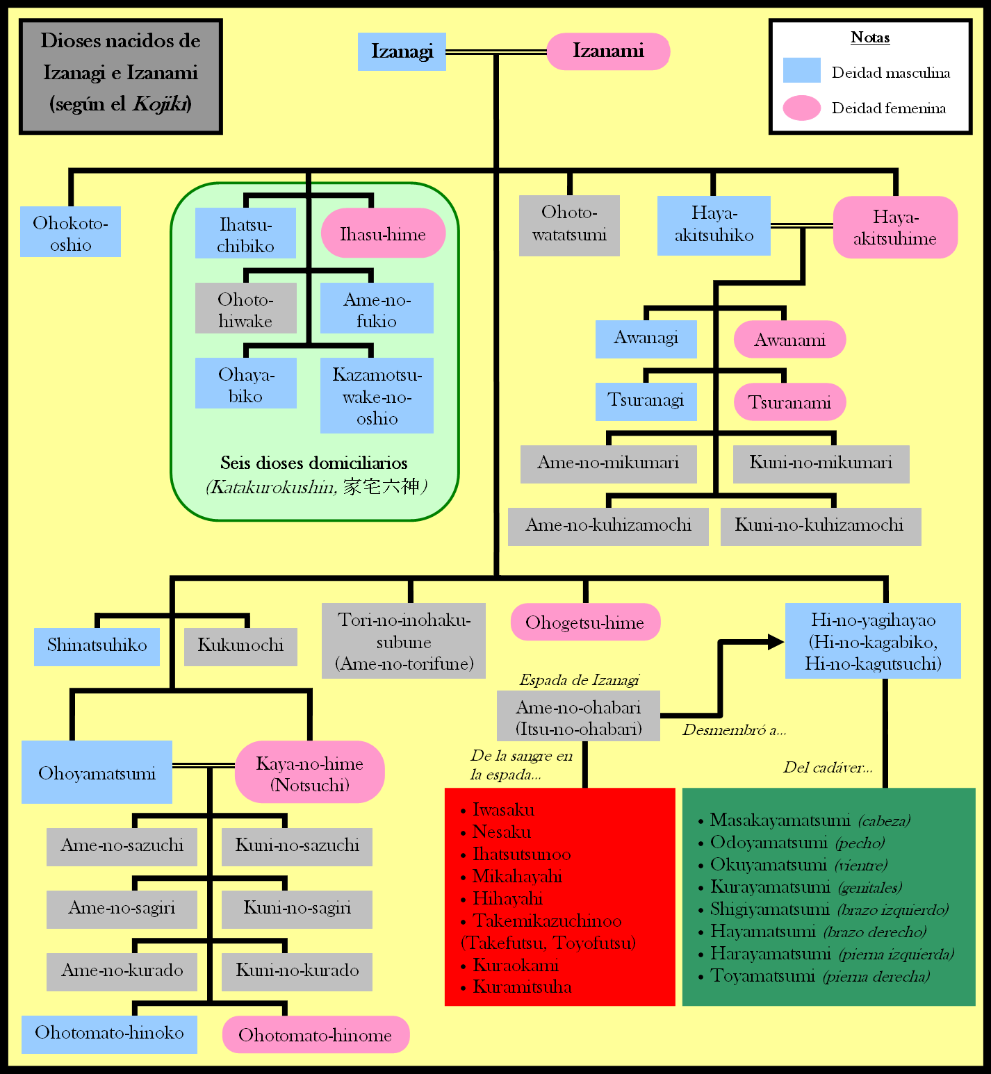 Genealogy of Izanami and Izanagi in the japanese mythology